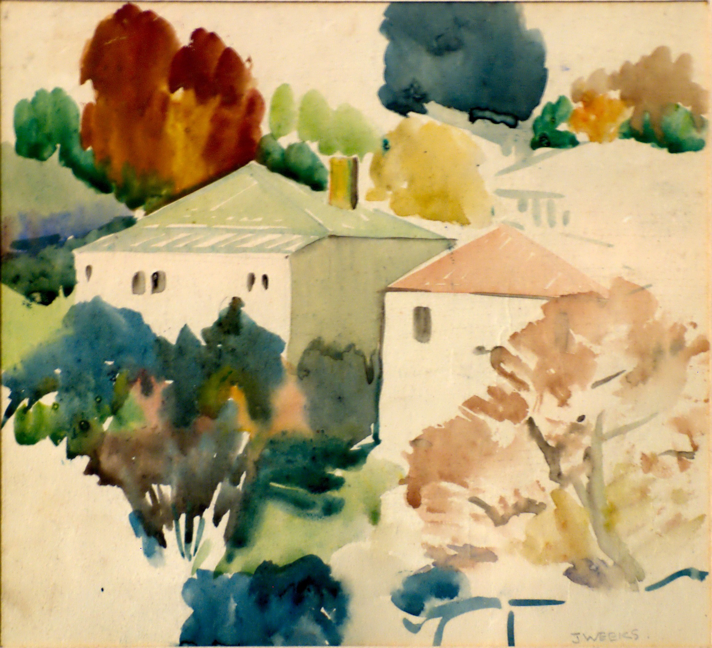 Photograph of a watercolour sketch by John Weeks done while teaching at Elam Art School around 1950